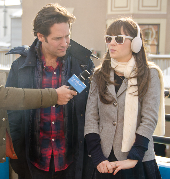 Paul Rudd & Zooey Deschanel at the SUNDANCE 2011: Inside The Cosmopolitan Lounge at The Sundance Channel HQ House.